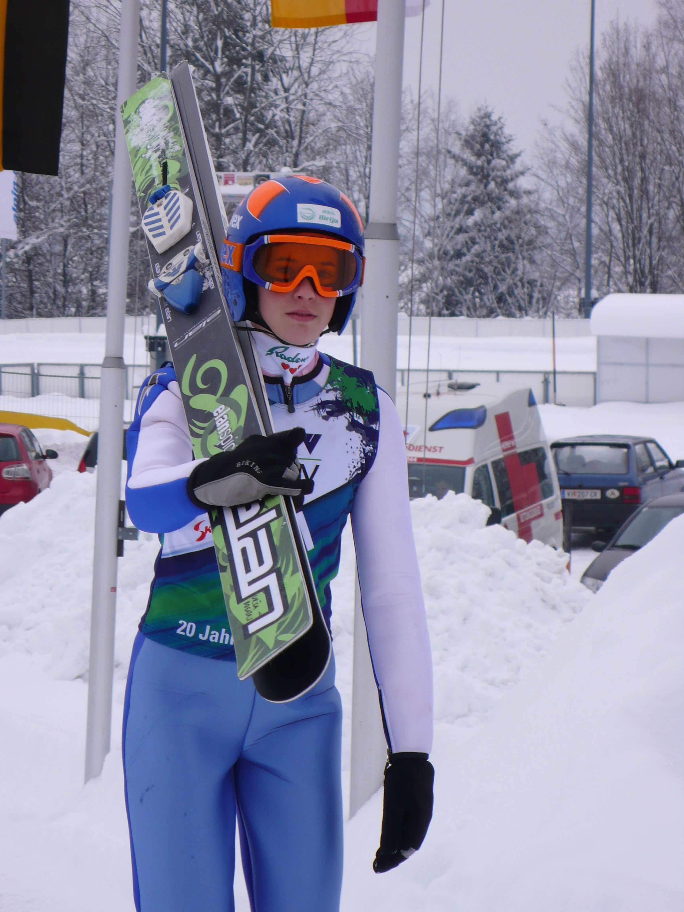 Ursa Bogataj, at the Ski jumping Continental Cup in Villach on the 2010-02-12.